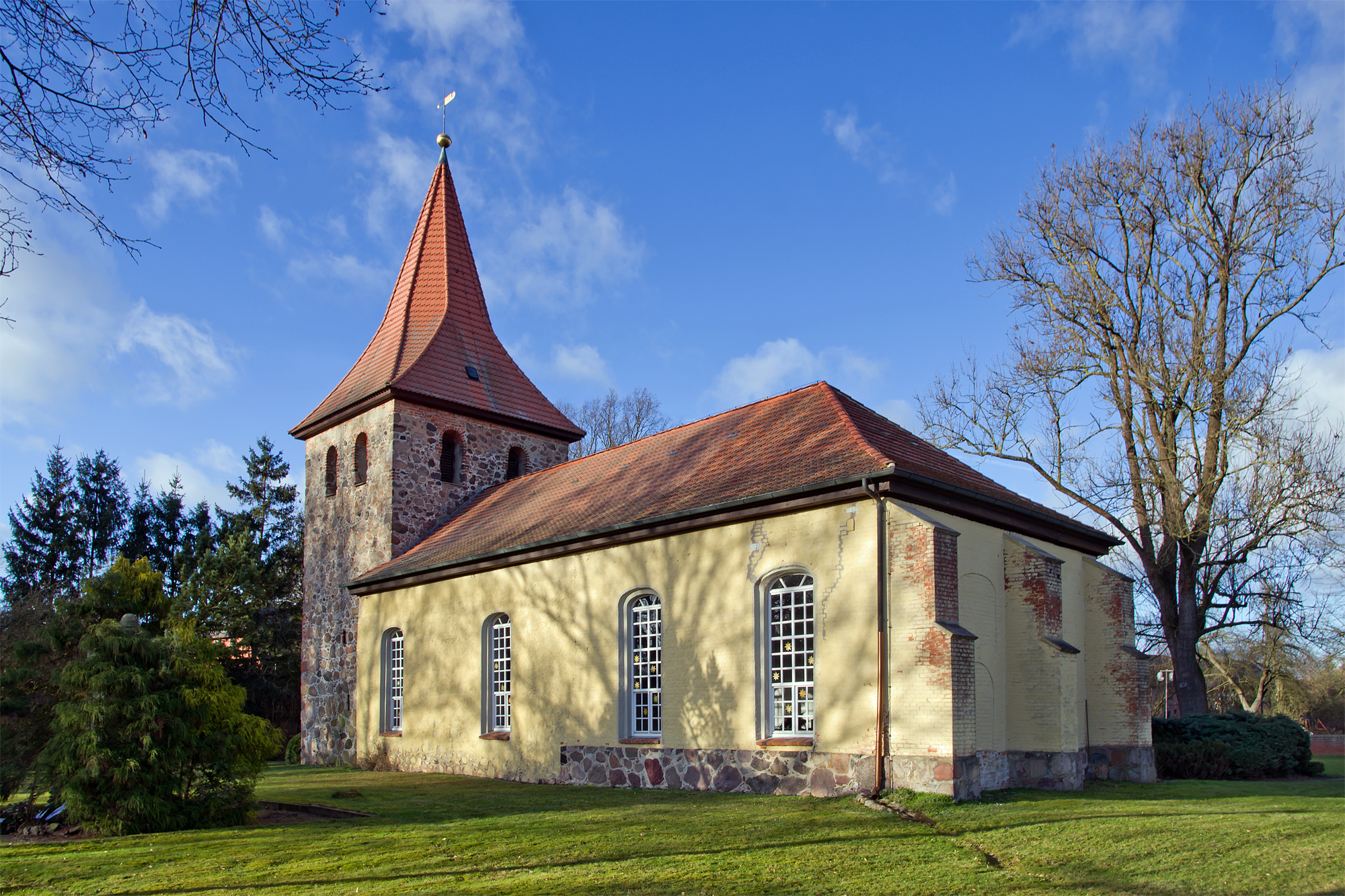 Church of the small village Rebenstorf (district Lüchow-Dannenberg, northern Germany).